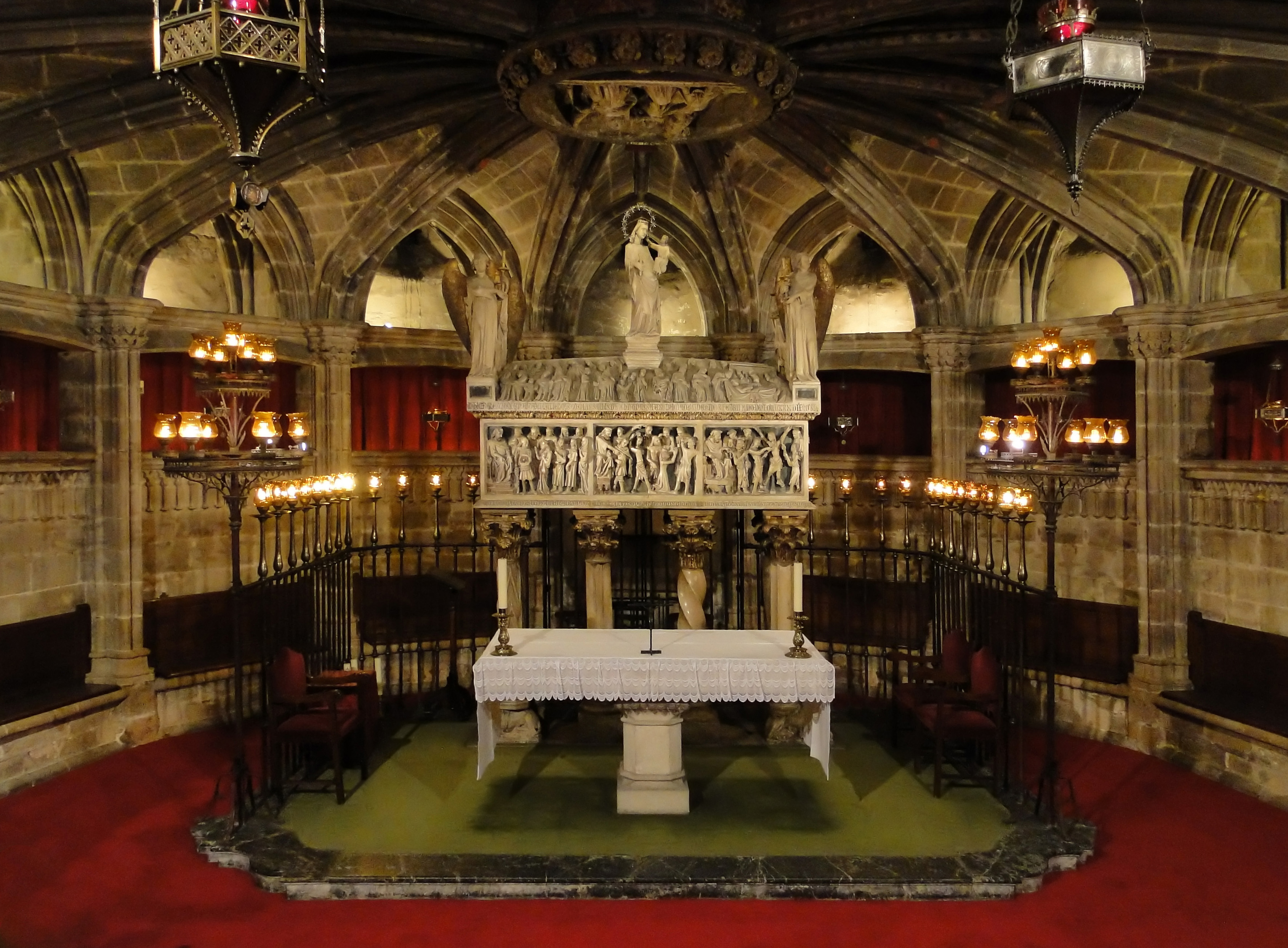 Crypt of Santa Eulalia in Cathedral of Santa Eulalia, Barcelona, Spain